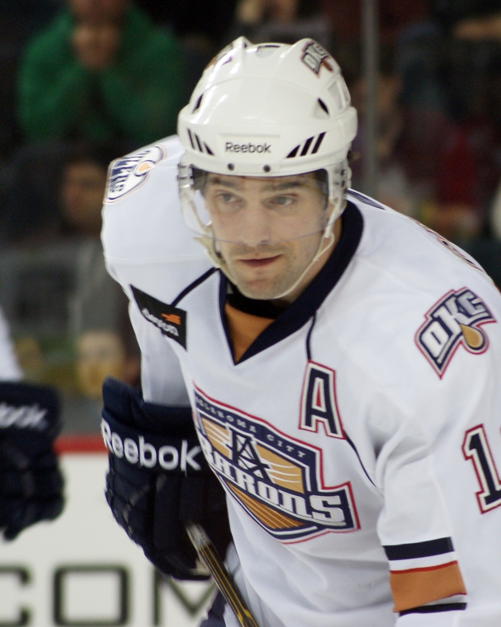 Alexandre Giroux, born June 16, 1981 in Quebec City, Quebec, is an Canadian professional ice hockey forward. He was selected by the Ottawa Senators in the 7th round (213th overall) of the 1999 NHL Entry Draft. He has played in the National Hockey League (NHL) with the New York Rangers, Washington Capitals, and Edmonton Oilers. Photo was taken on February 18, 2011 during an American Hockey League (AHL) regular season game.